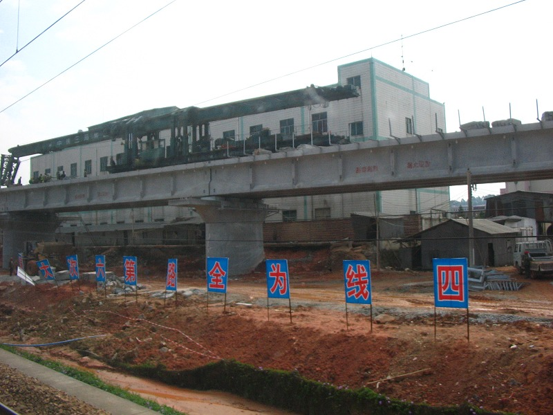 4th line of Guangshen Railway in construction